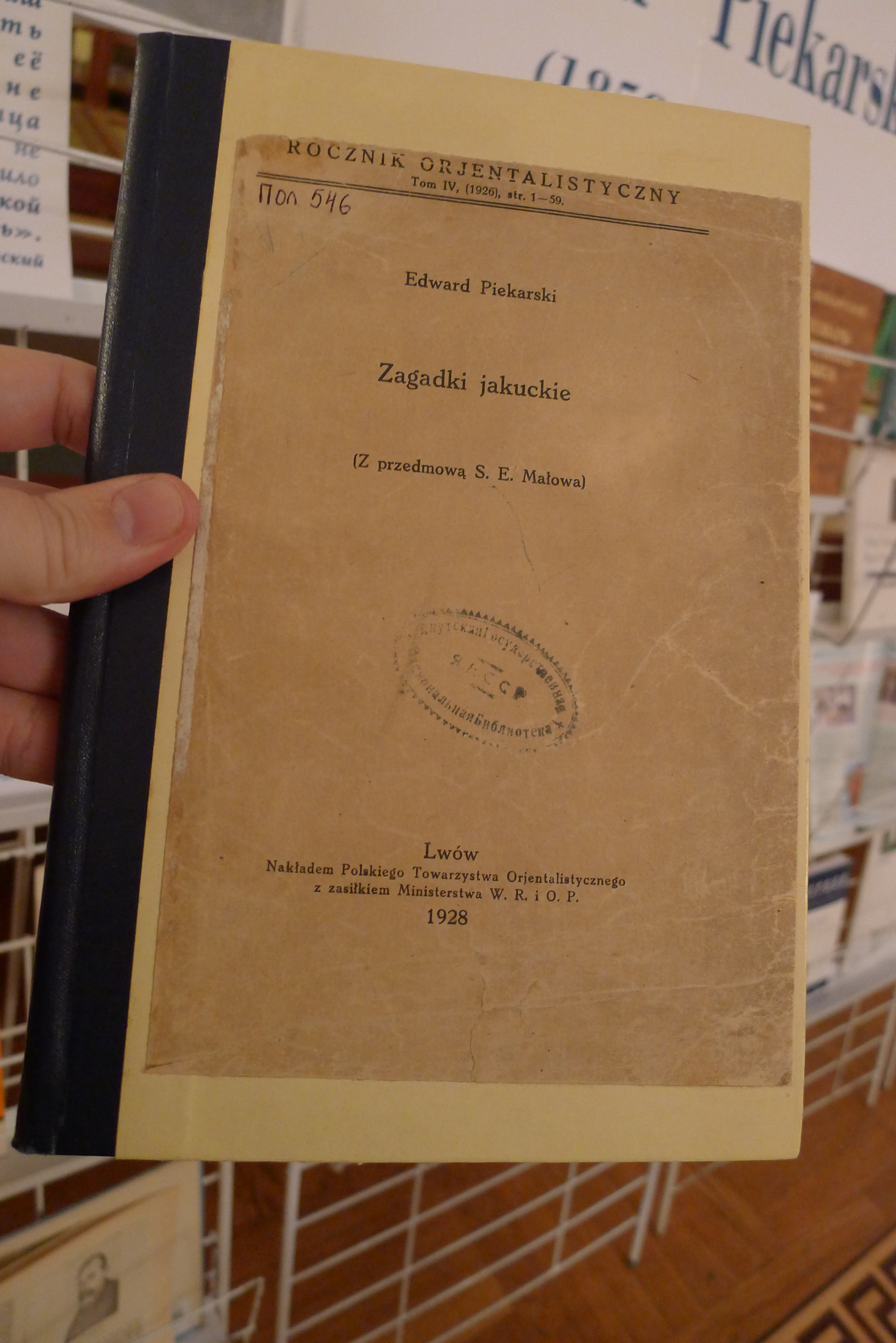 Dictionary of the Sakha (Yakut) language was translated into Turkish by the order of AtatürkTürkçe: Sahastan (Yakutistan) Milli Kütüphanesinde türkçeye çevirilmiş saha dilin sözlüğü gösterildi. Çeviri Atatürk'ün talimatıyla 30'larda yapılmıştır.